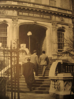 Photo of the old Science High building on 184th Street, taken by me in 1949 with a Kodak I camera. It was among the photos collected for the 50th Anniversary Journal in 1988. This picture taken with a digital camera of a produced copy of the photo in 2005.